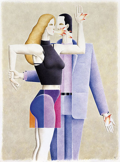 Collection Invisible's portraits. Acrylic on canvas. 150 x 200 cm